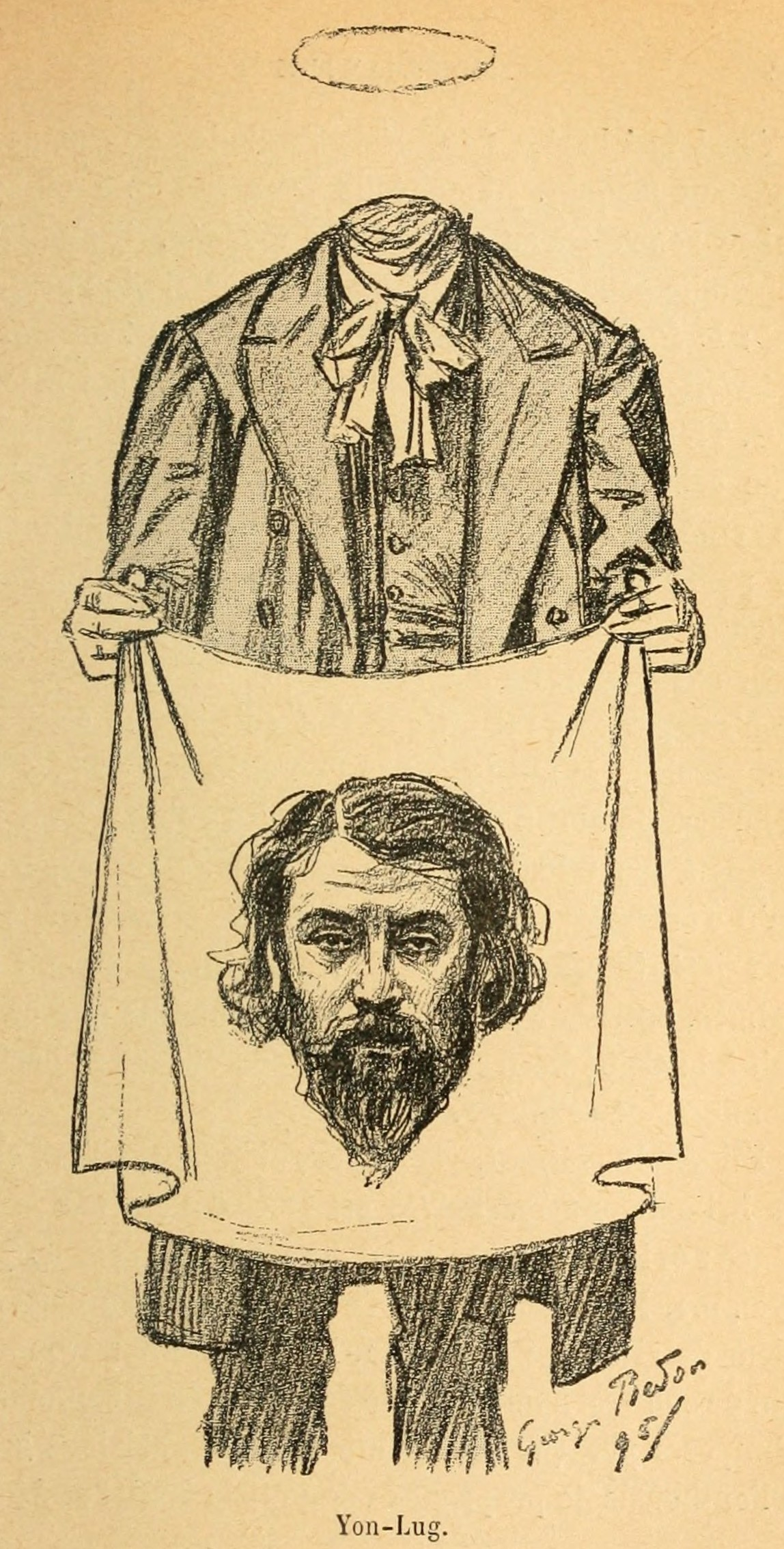 Portrait of song composer Yon-Lug, 1895.